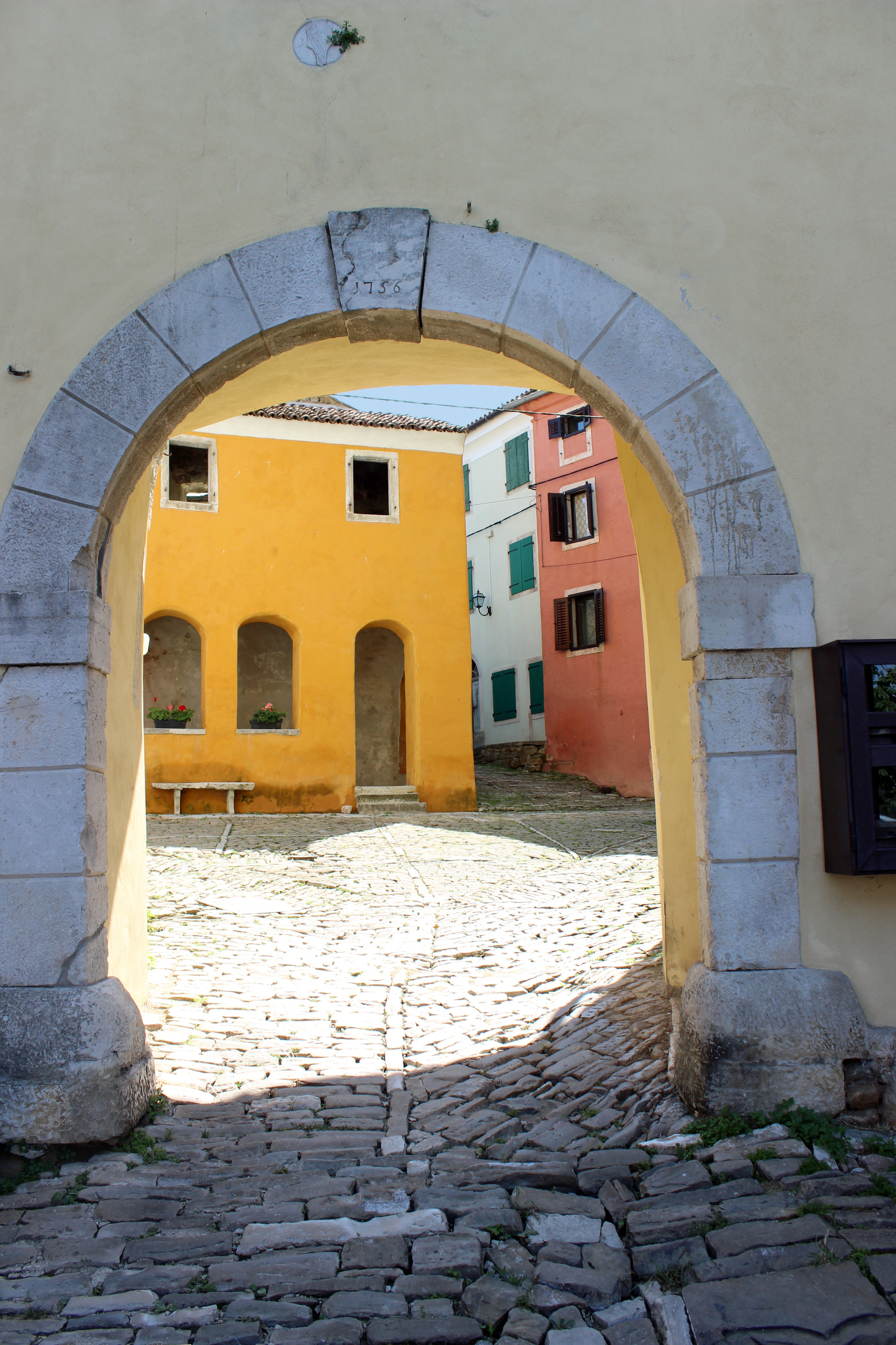 City gate, in Oprtalj, Croatia